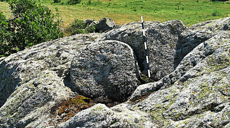 Elhovosanctuaryy